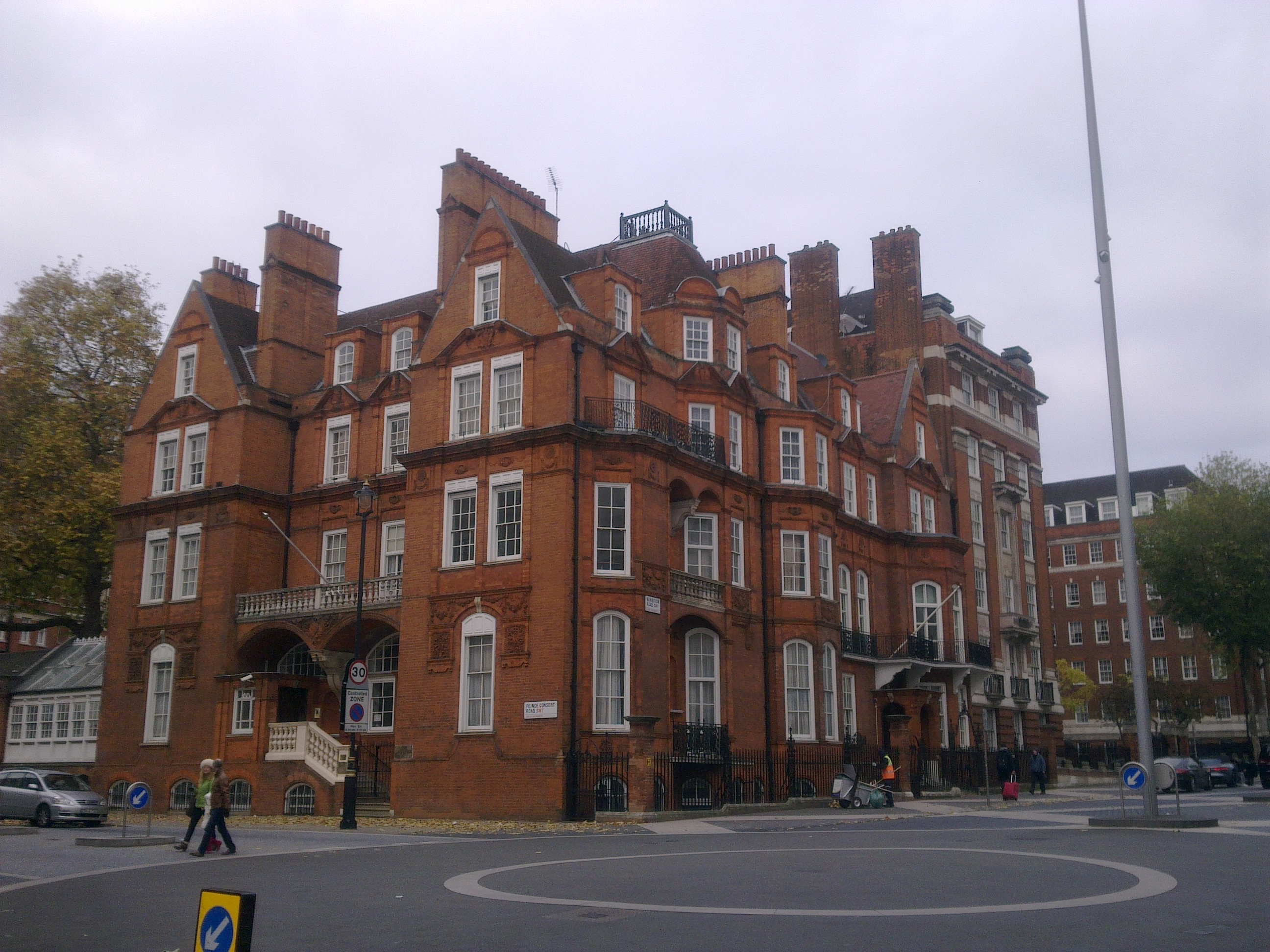 High Commission of Jamaica in London 1